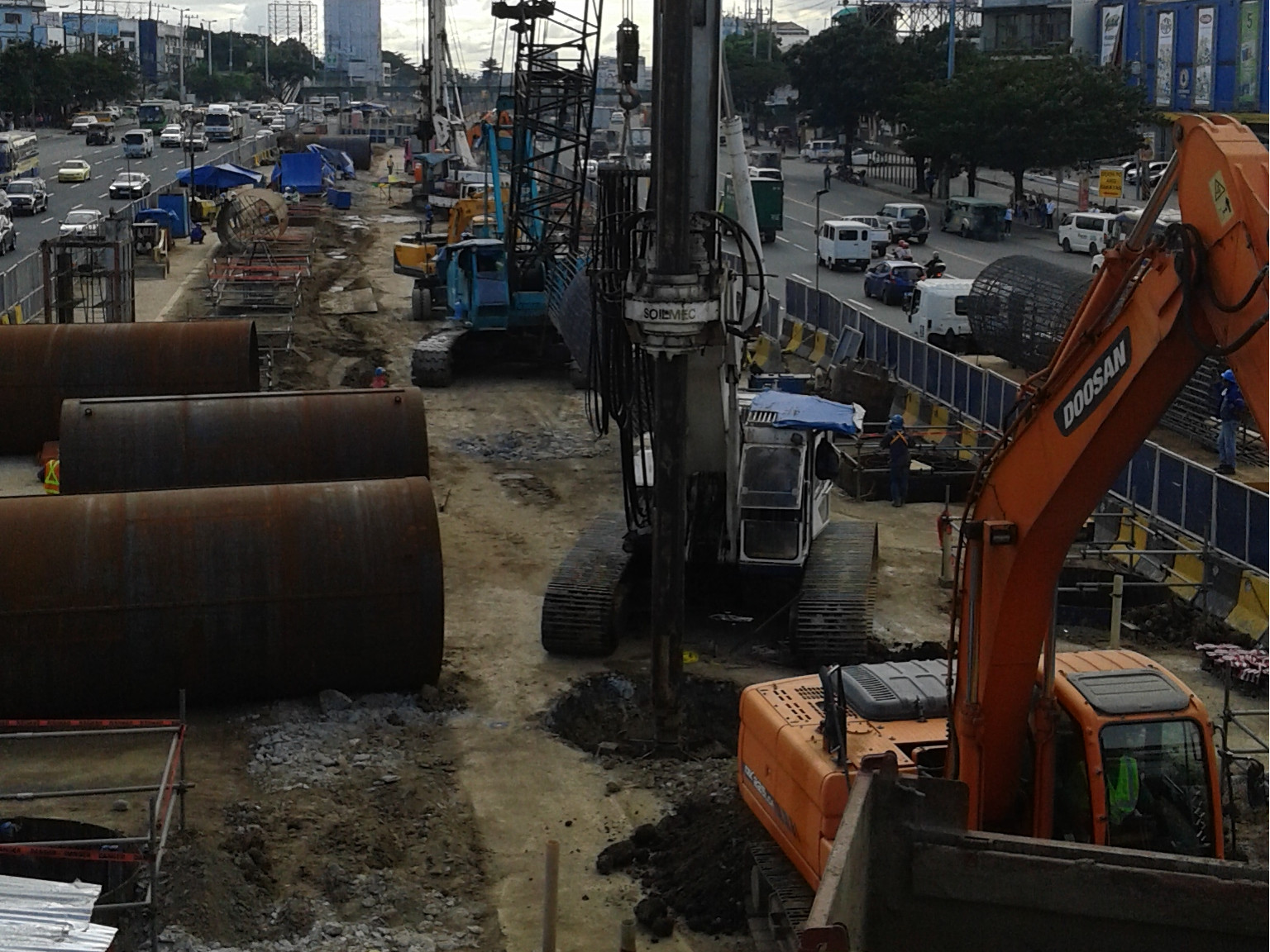 Construction of MRT-7 at Commonwealth Avenue as of November 29, 2017